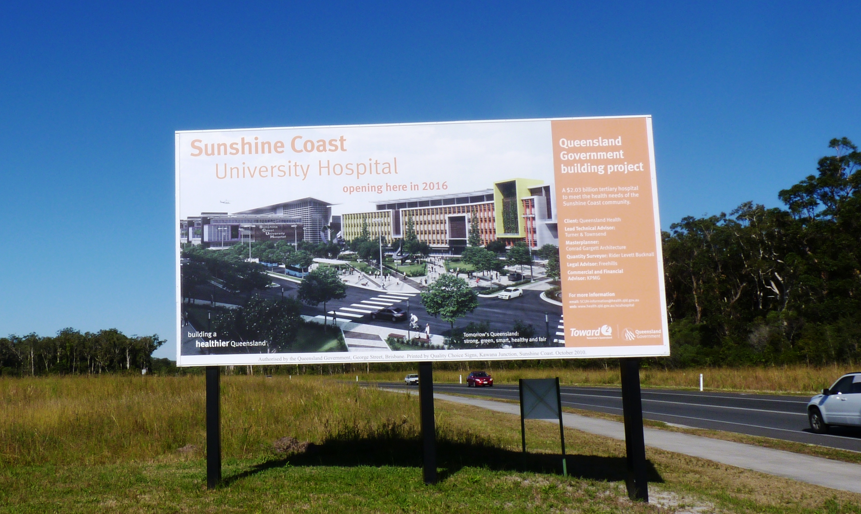 Green fields site of the Sunshine Coast Tertiary Hospital to open in 2016.